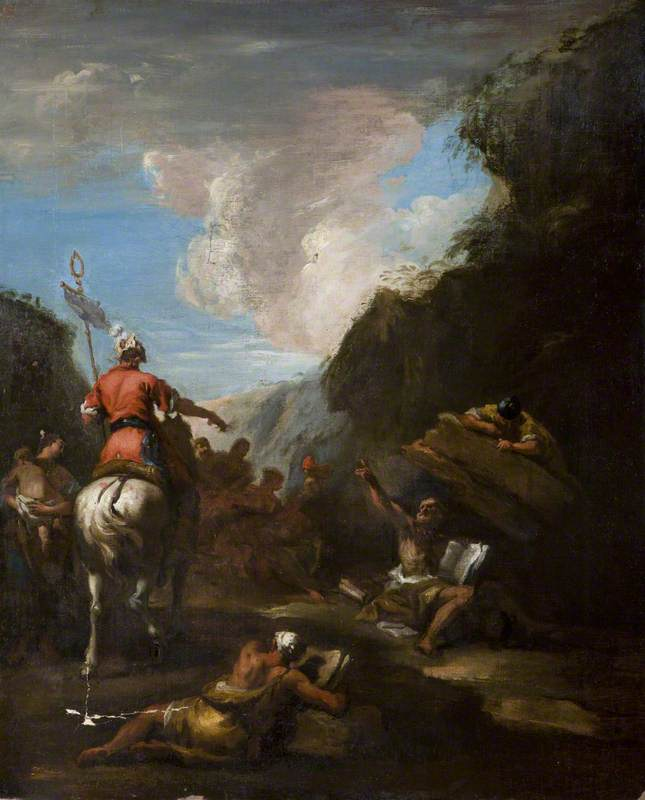 Hiero of Syracuse calls Archimedes to fortify the city. Private collection. Location: Ireland / Dublin / National Gallery of Ireland